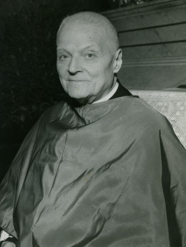 Giuseppe Pollone.